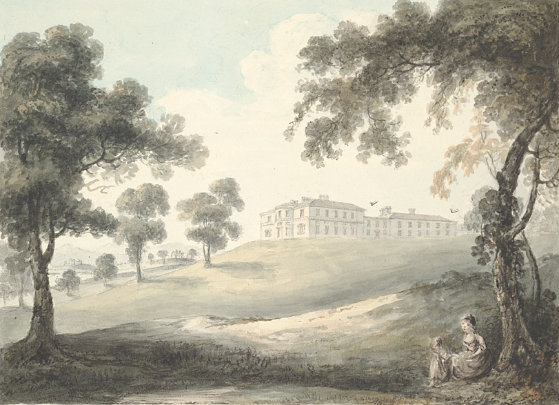 Kinmael, 1794